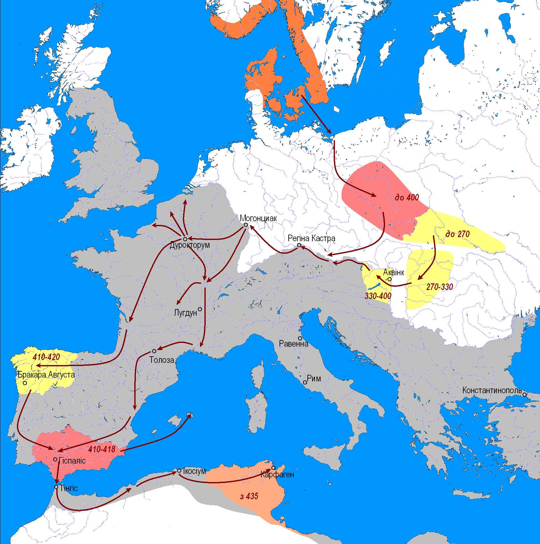 Map of Vandals' migration (ukrainian)